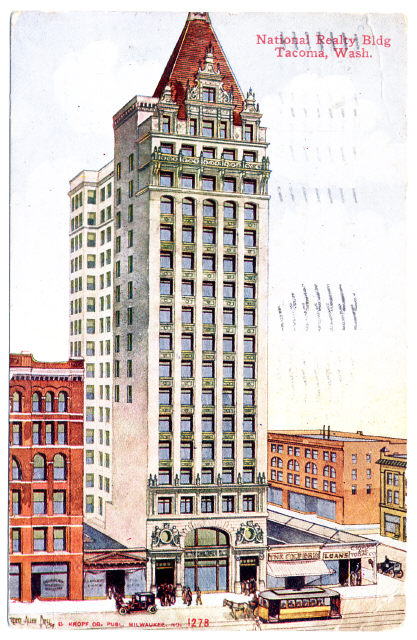 Postcard of the "National Realty Company Bldg, Tacoma, Washington". currently named Key Bank Center